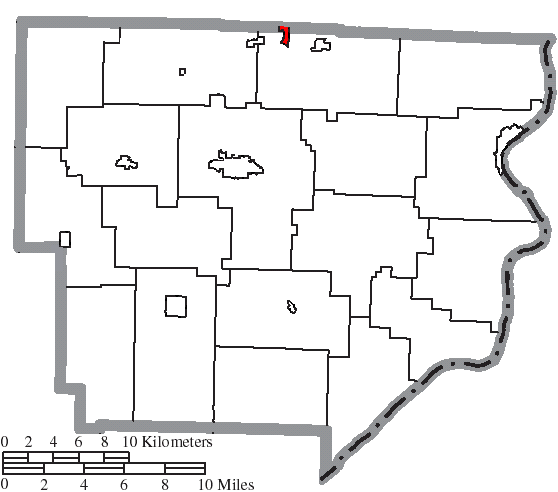 Map of the municipal and township boundaries of Monroe County, Ohio, United States, as of the 2000 census, with the location of the village of Wilson highlighted. Township borders are shown only in unincorporated areas in order to differentiate incorporated and unincorporated areas more clearly.